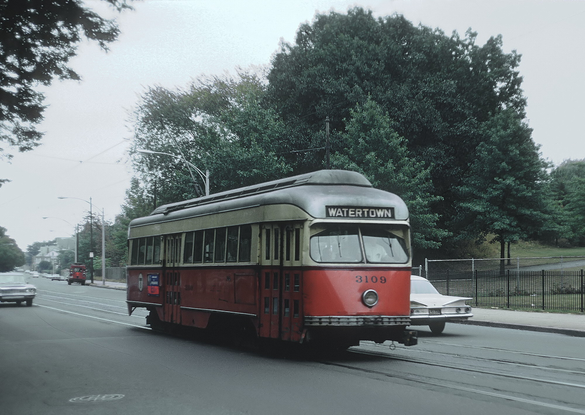 PCC streetcar #3109 outbound on Cambridge Street near Dustin Street in September 1968